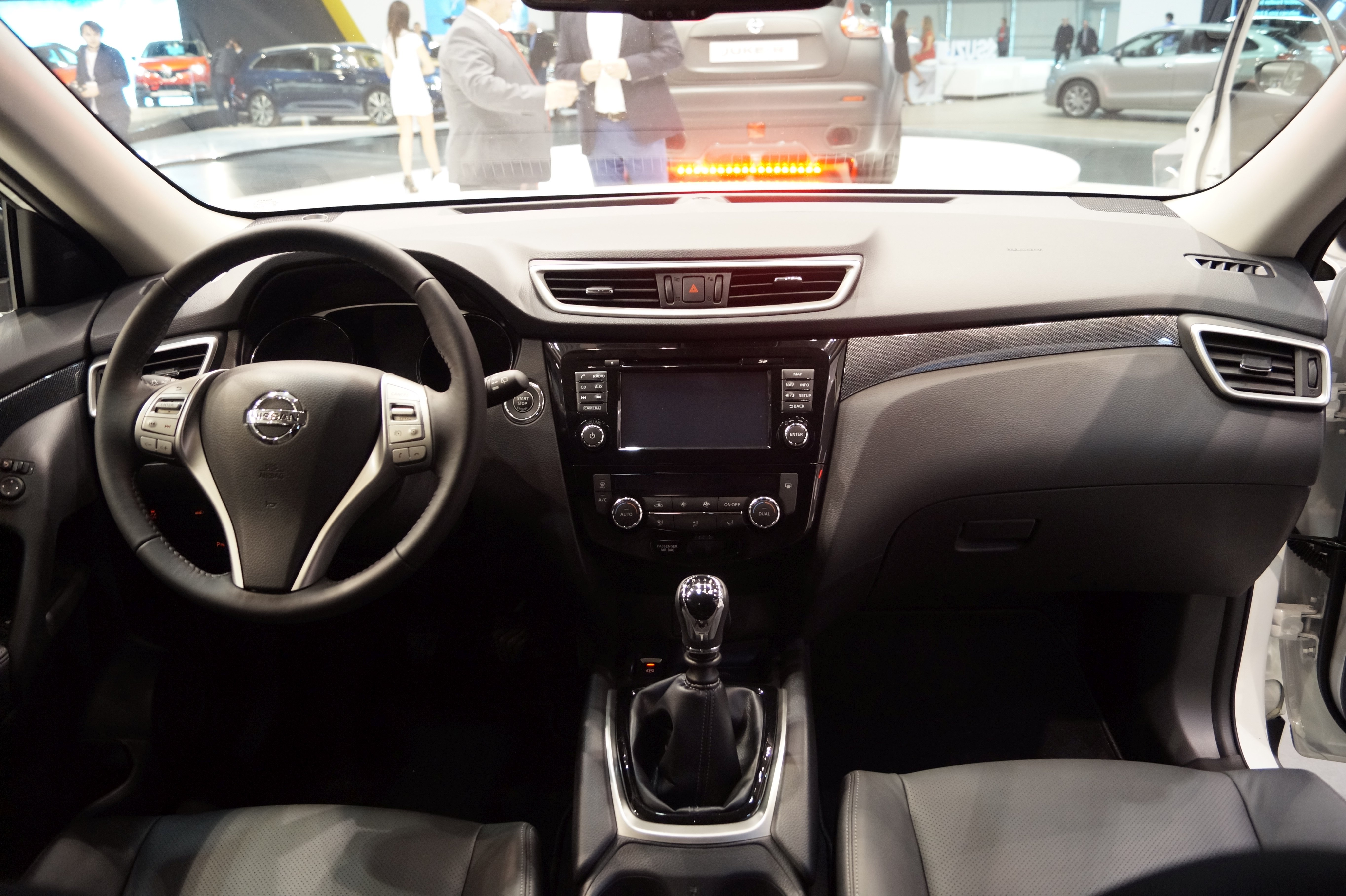 The making of this document was supported by Wikimedia Polska Association, within Wikigrant no. WG 2016-10. Wnętrze Nissana X-Trail na Motor Show Poznań 2016